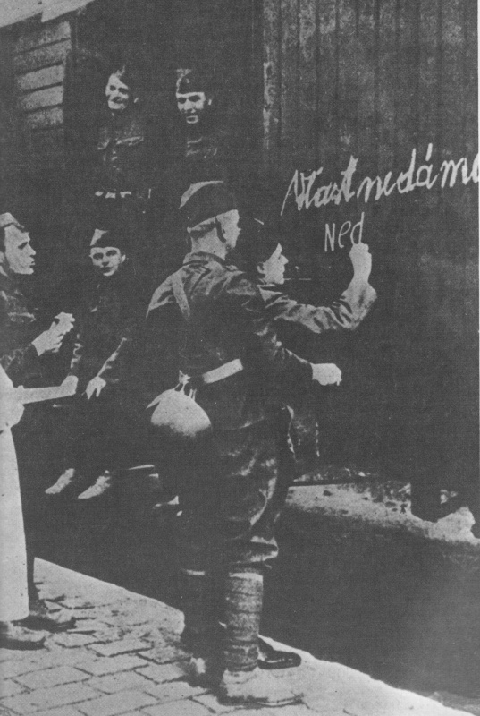 Mobilization of the Czechoslovak Army (1938)